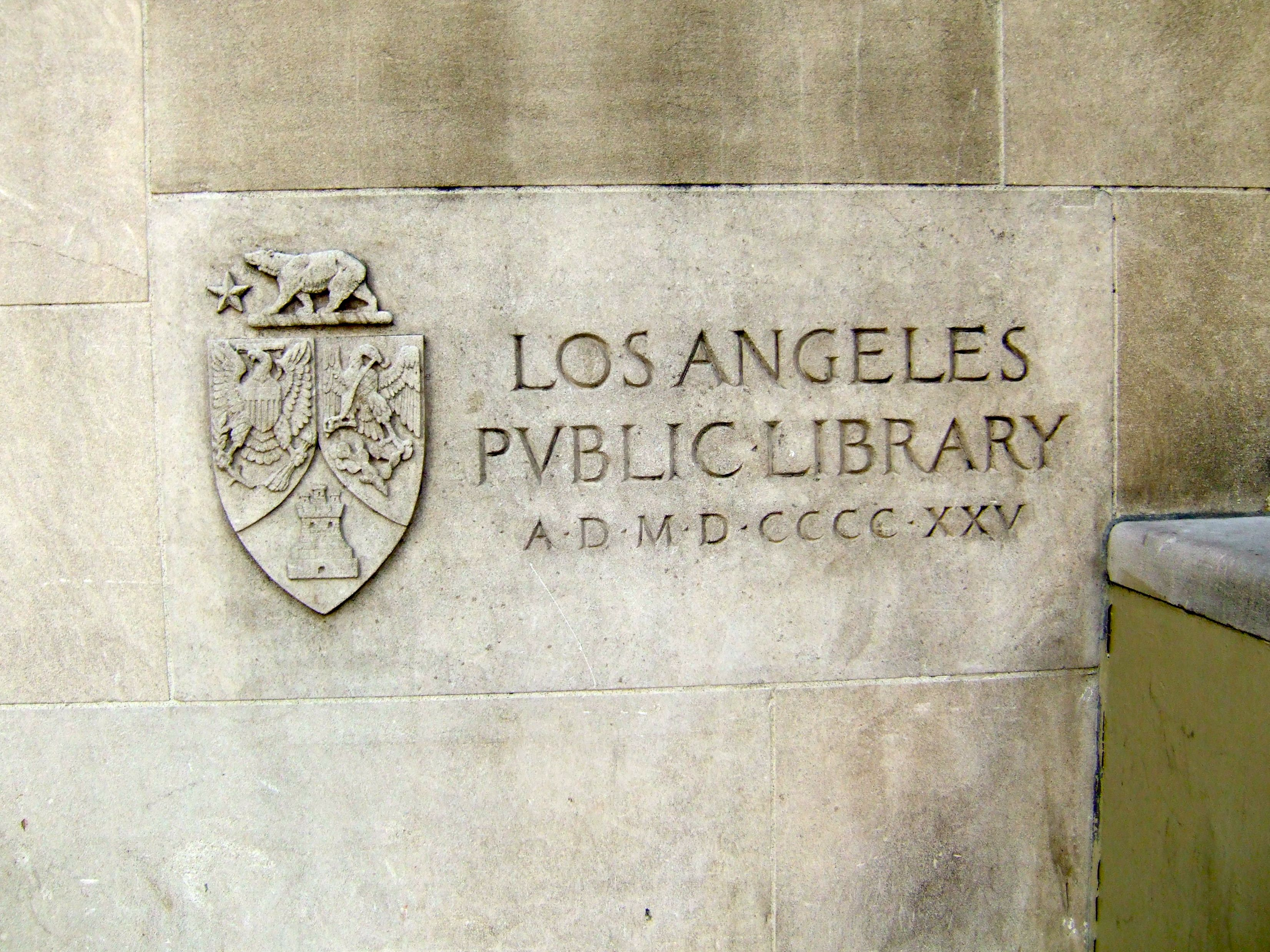 Cornerstone of old building, Los Angeles Central Library, laid 1925, photographed 2012 Other information Photo by George Garrigues.